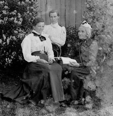 Photograph attributed to Robina Nicol, taken circa 1895-1925, showing Amy Kirk and Sarah Jane Kirk seated with another woman in a garden. Quantity: 1 b&w original negative(s). Physical Description: Dry plate glass negative